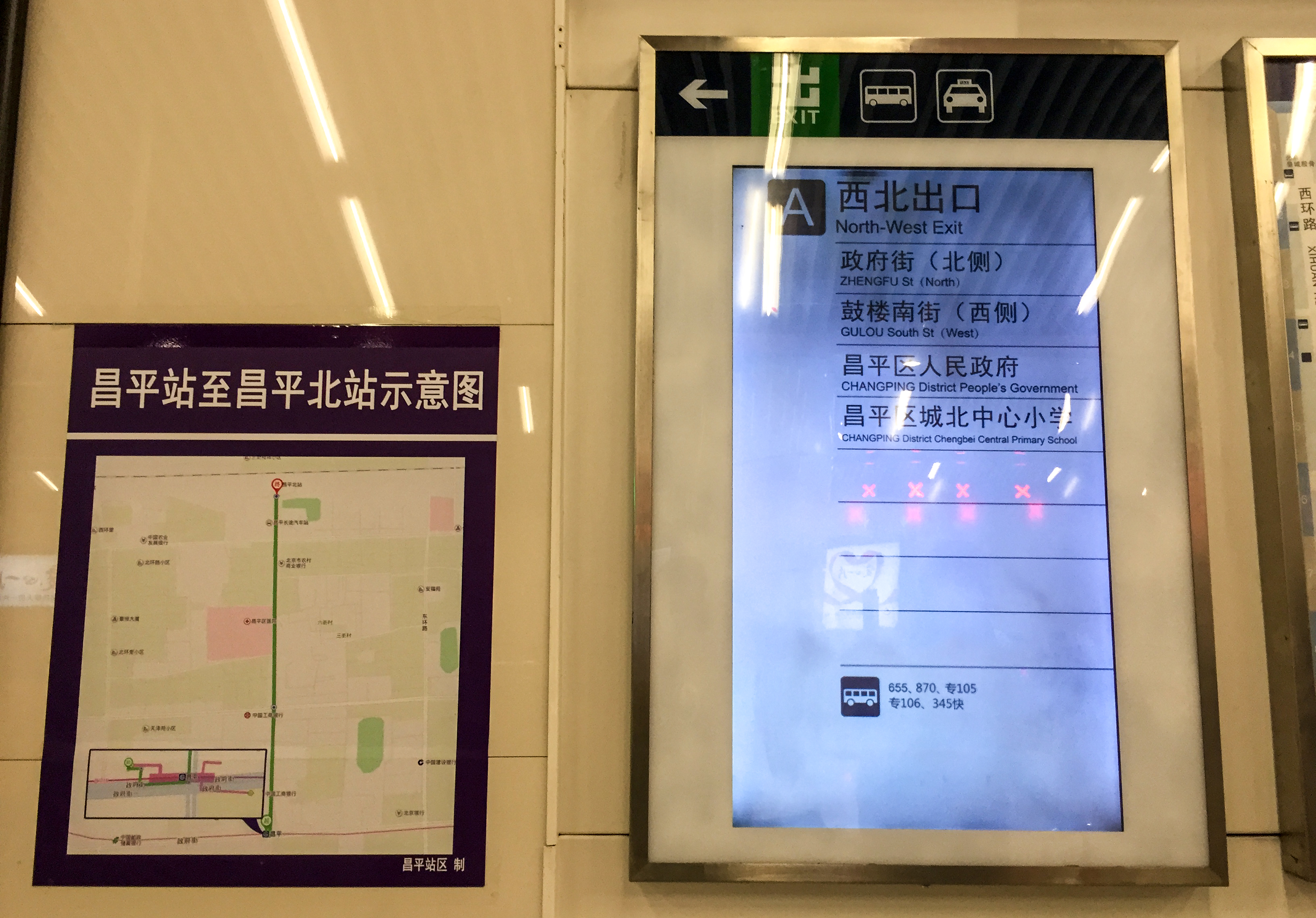 With a guidance map to Changpingbei Railway Station... in fact, it is closer to go on the west due to the orientation the entrance stairs.